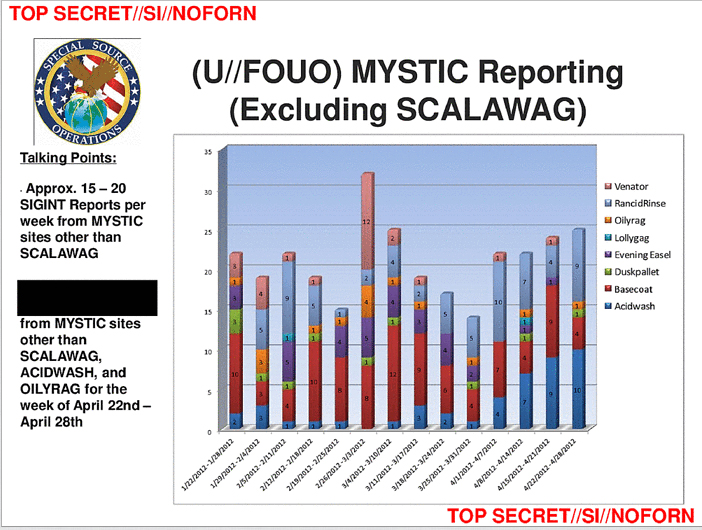 Chart showing the number of reportings under the MYSTIC program of the NSA from January through April 2012.